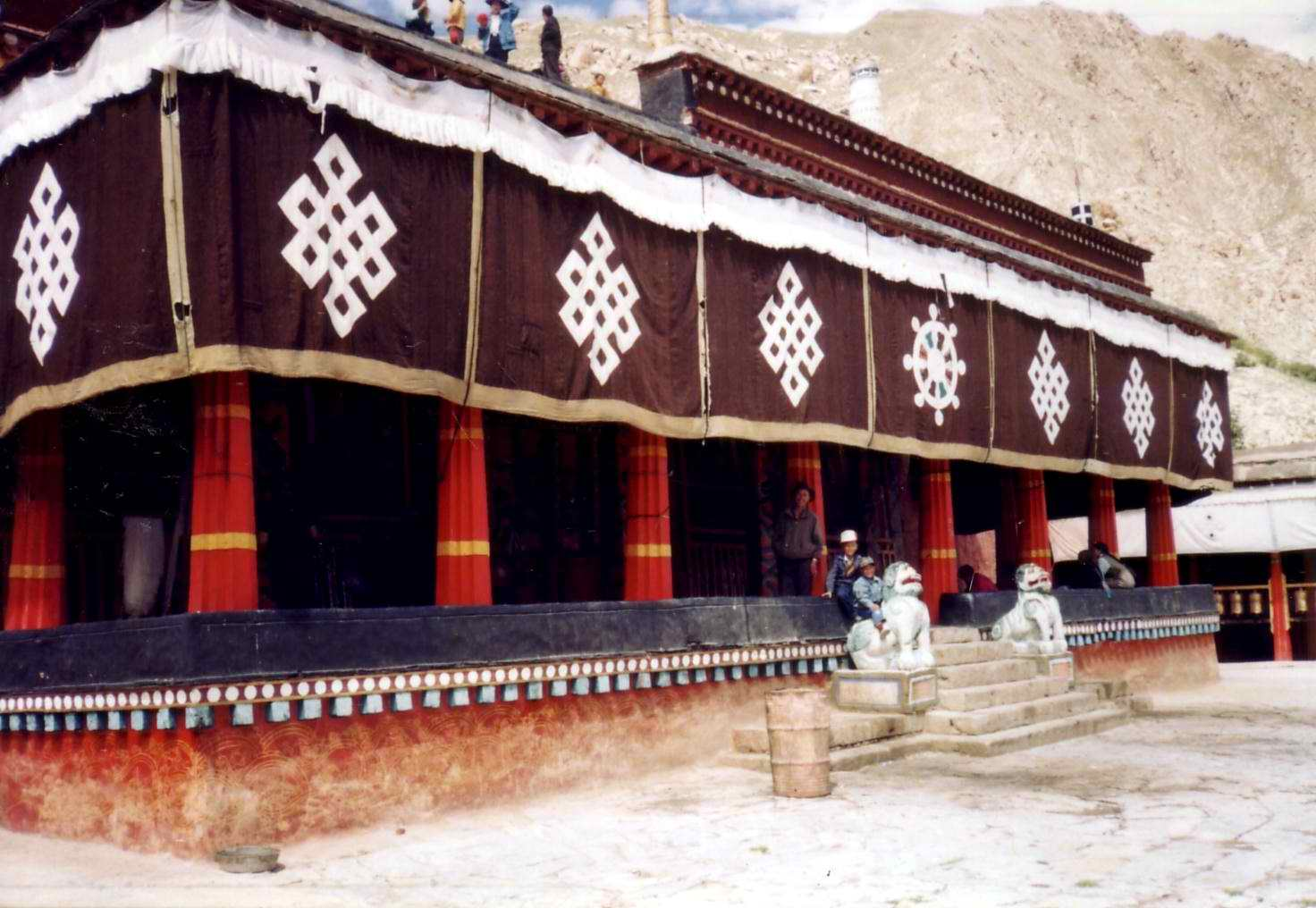 I took this photo in 1993. John E. Hill 05:30, 1 February 2007 (UTC)